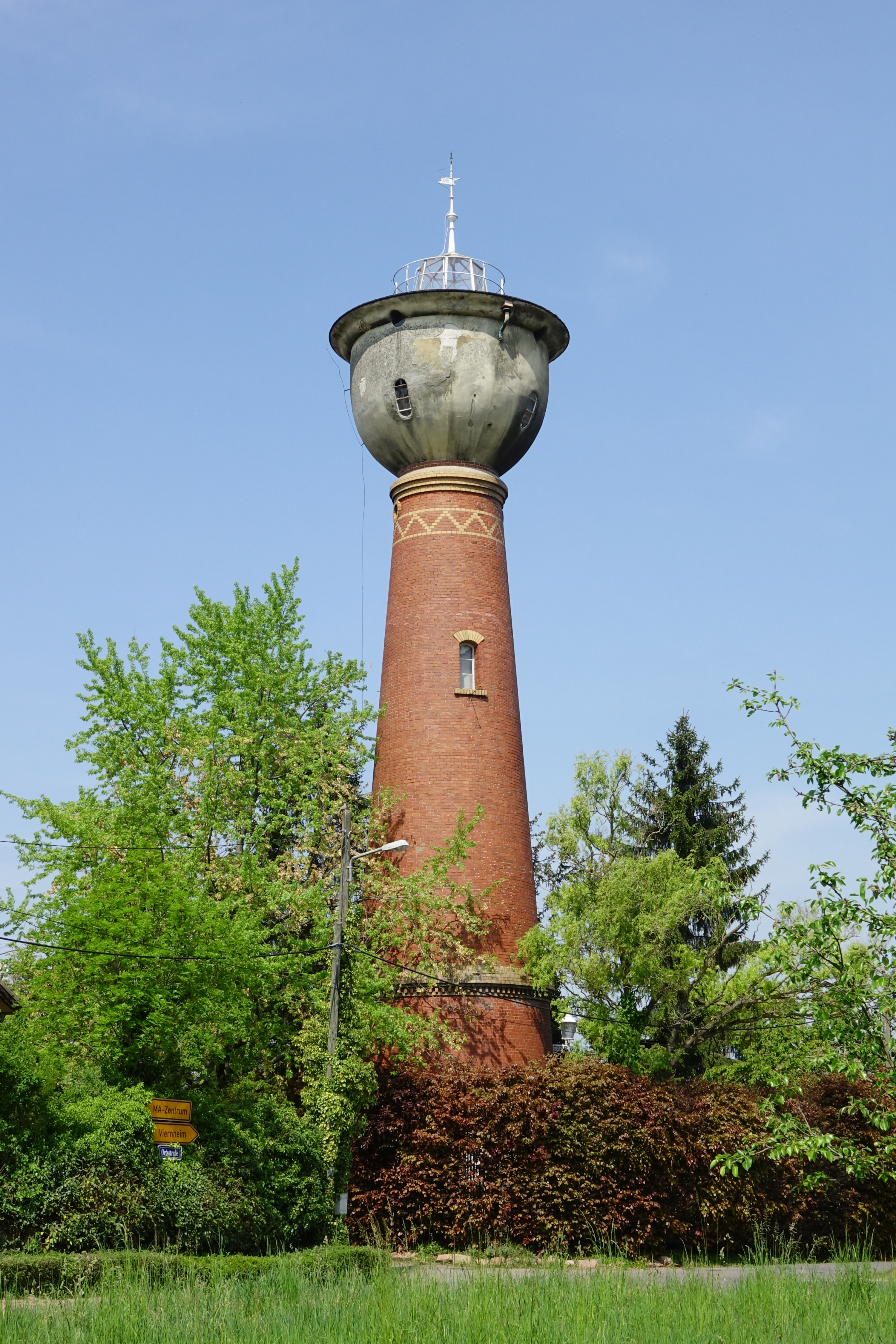 Watertower of Mannheim-Straßenheim (Germany)